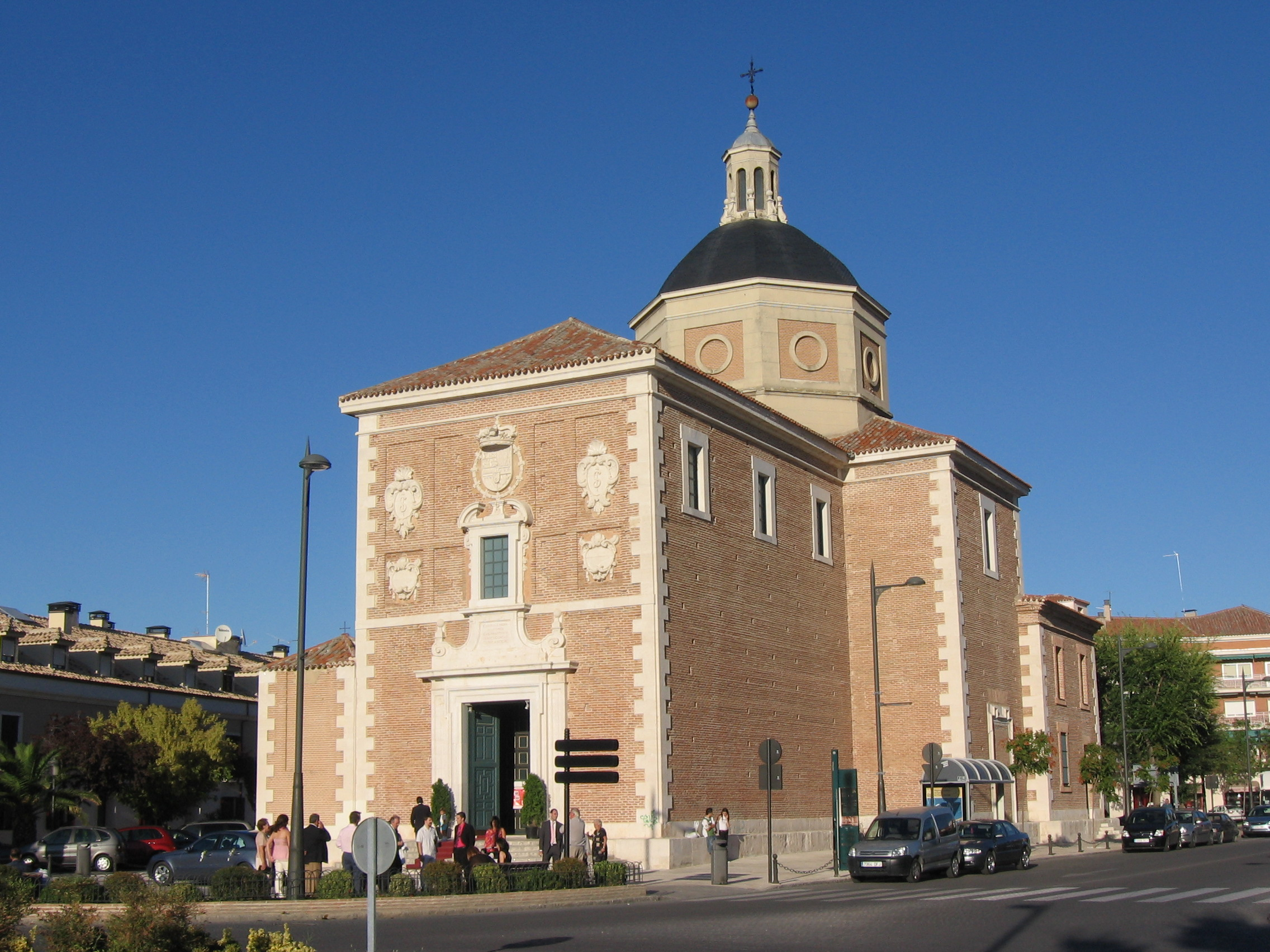 Church of Alpajés of Aranjuez